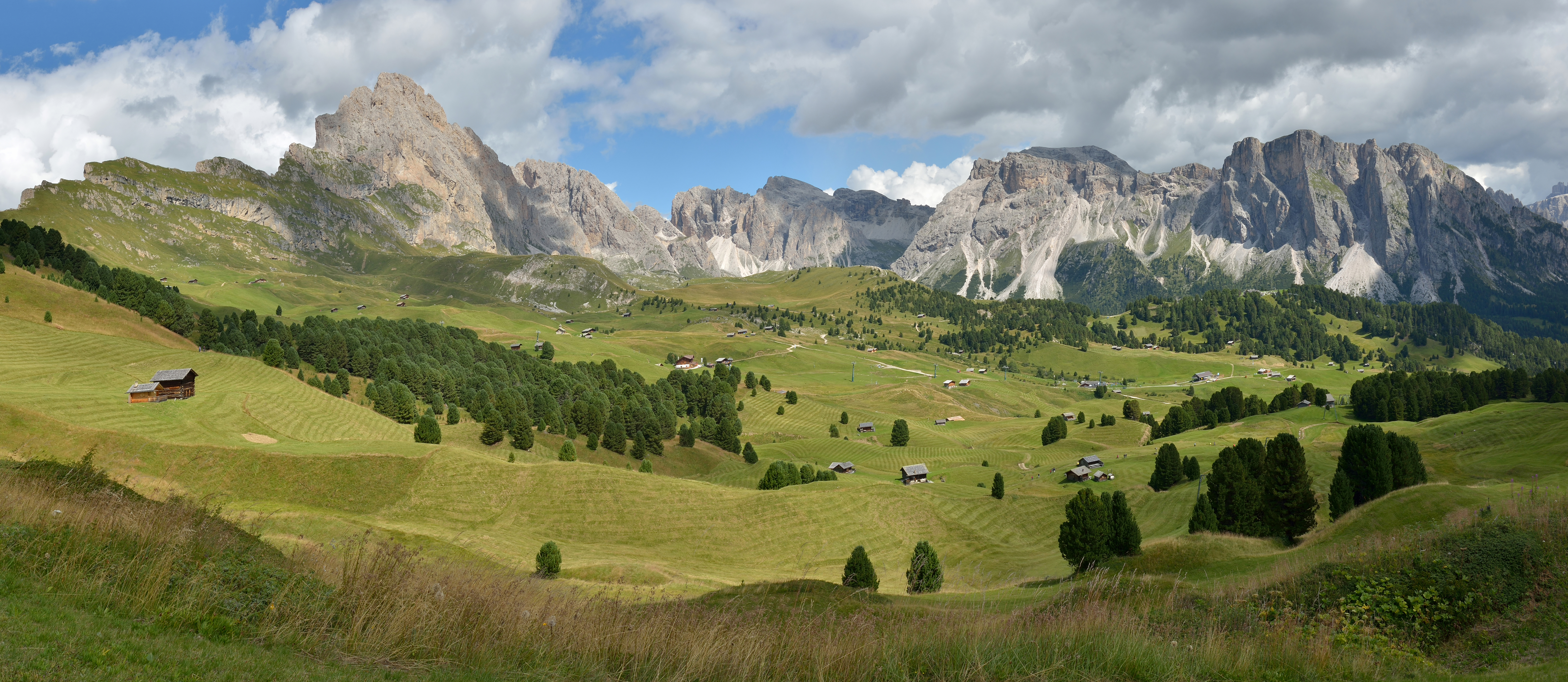 The Mastlé Alpine meadows, the Odles and Stevia peaks in Gröden - South Tyrol